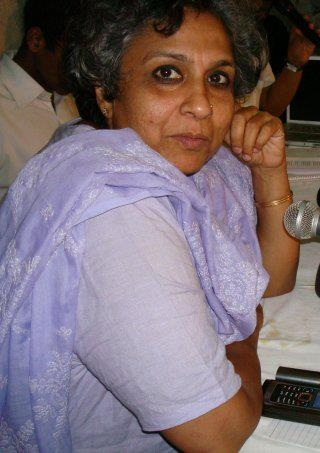 Anjali Gopalan, During Press meet at New Delhi on July 2 2009